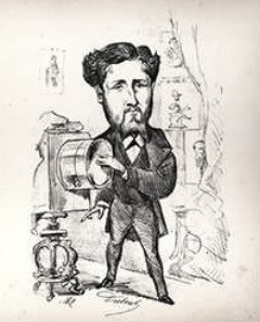 Caricature of French diplomat and historian Axel Duboul from L’Album comique des Affaires étrangères published in 1869